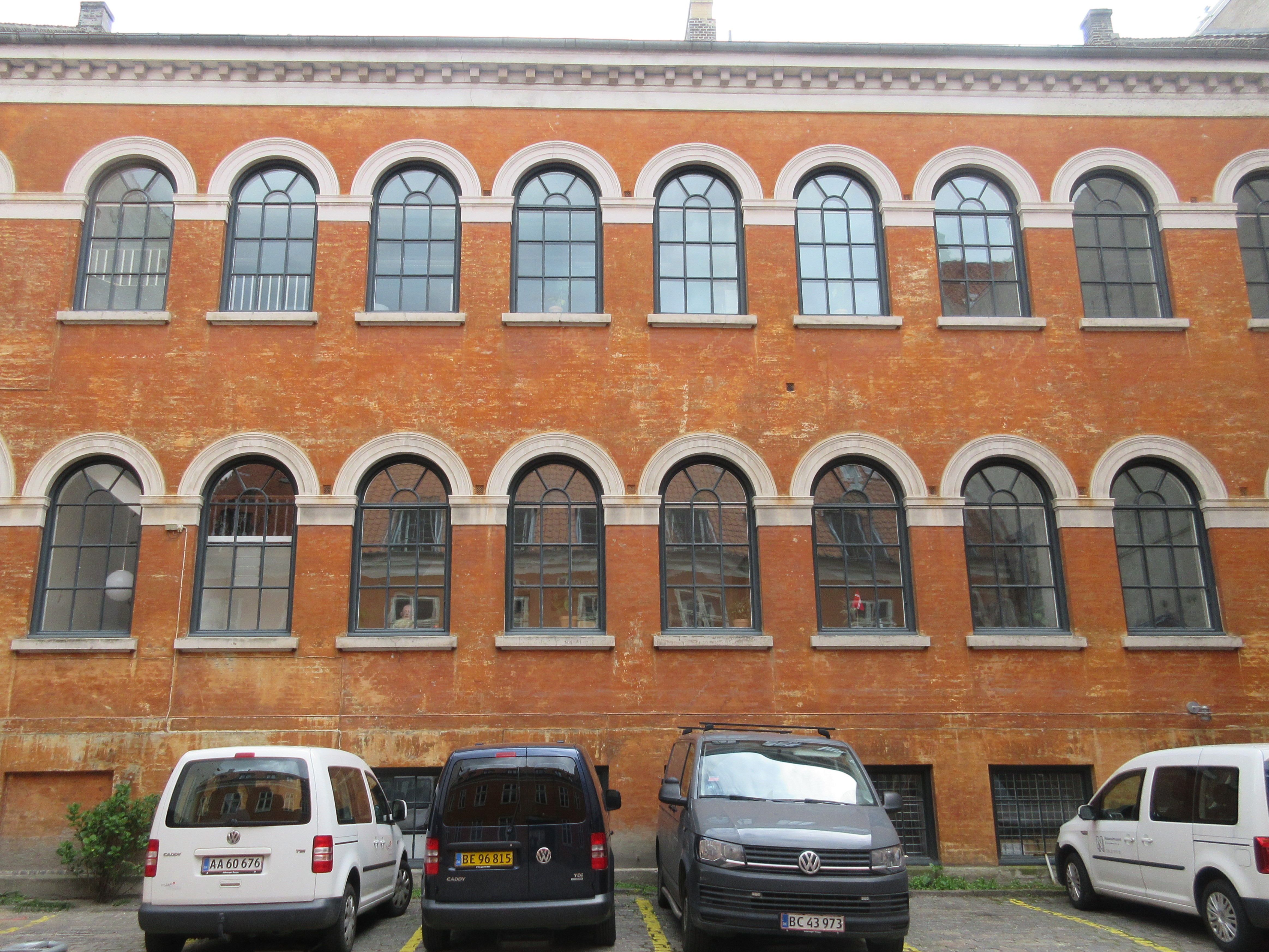 The rear wing at Ny Vestergade 11 in Copenhagen, Denmark